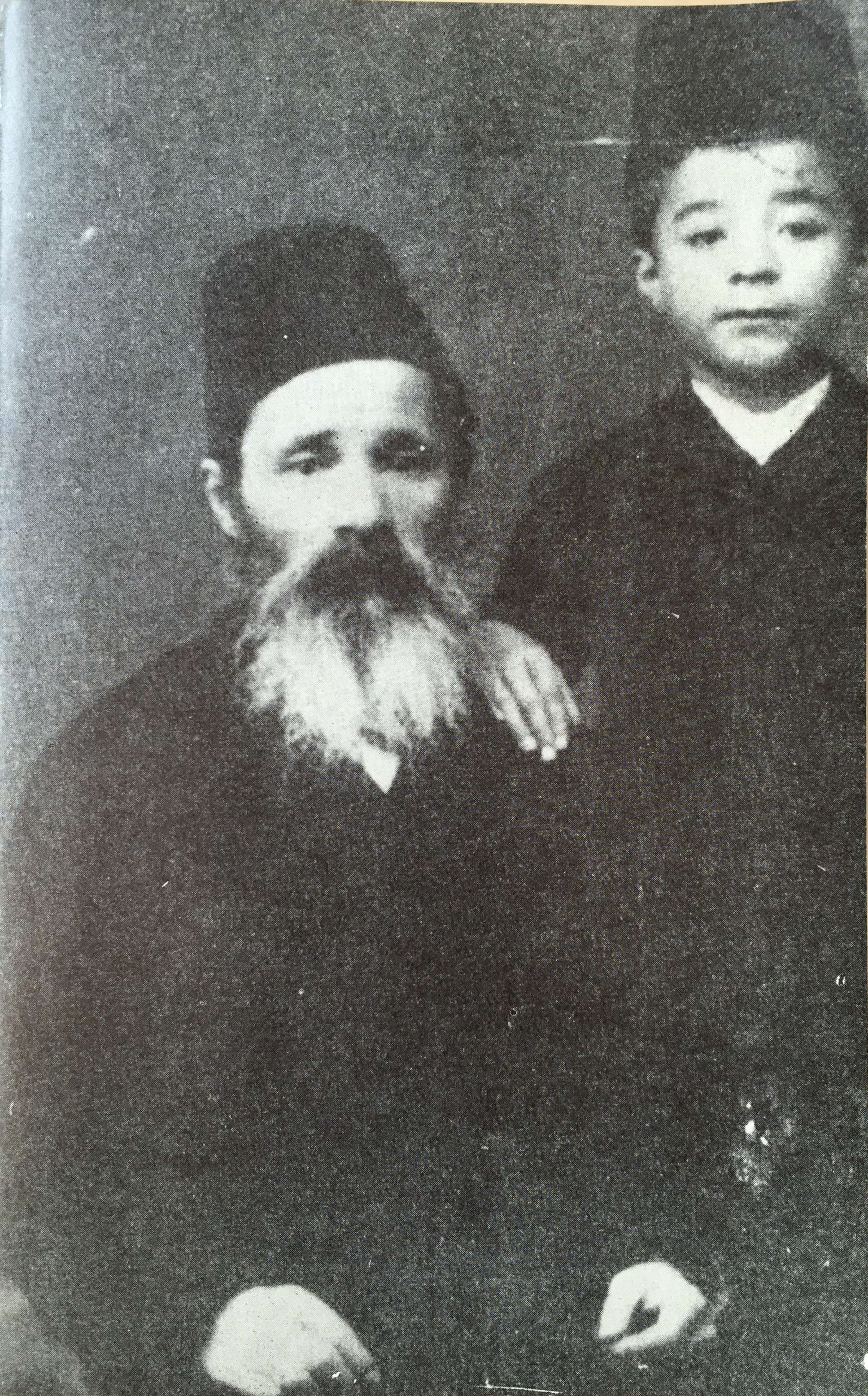 Grigor Parlichev and Kiril Parlichev, one of his two sons.